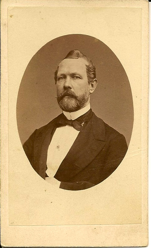 Swedish politician from late nineteenth century